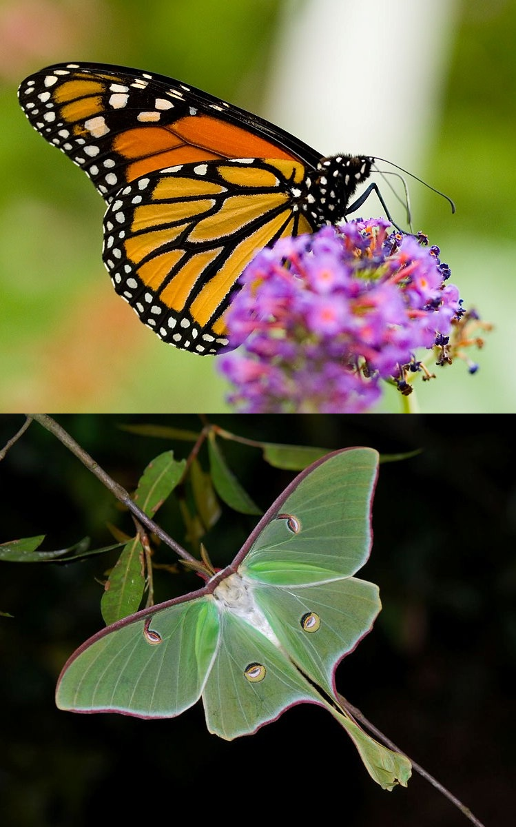 Two merged pictures of the lepidopterans Danaus plexippus and Actias luna